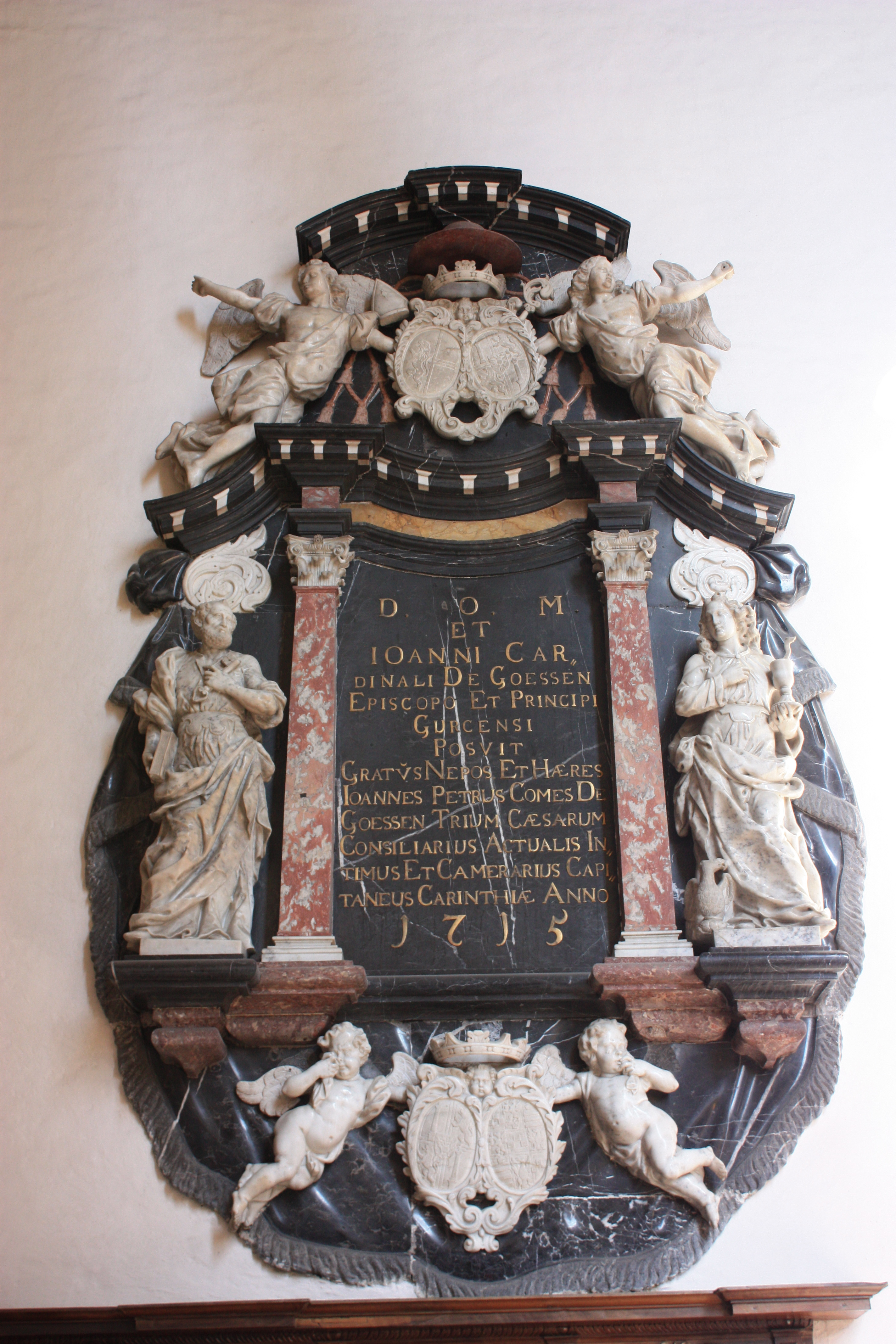 Parish church Saint Niklaus - epitaph of Johann von Goëss Locality:Straßburg Community:Straßburg